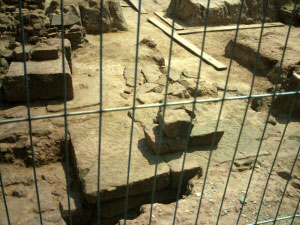 Amphitheatre Buttress Foundation, Roman remains, Chester.